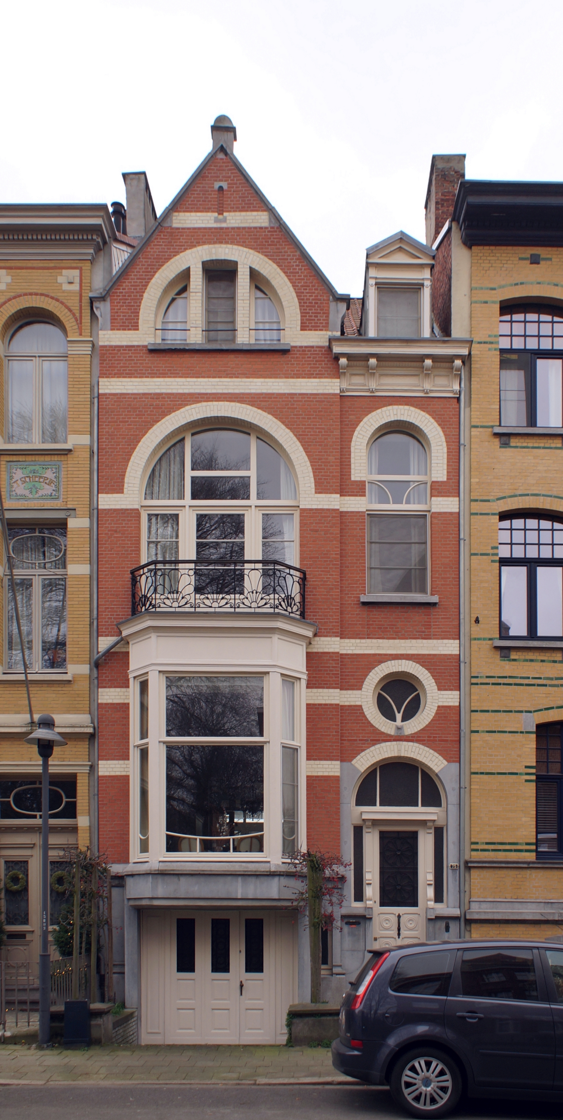 House in the Arthur Goemaerelei 75 in Antwerp. The artwork of architect Jules Hofman.